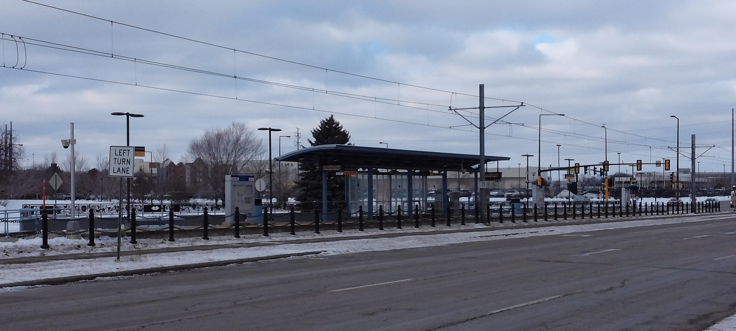 American Boulevard station on the METRO Blue Line, facing north.